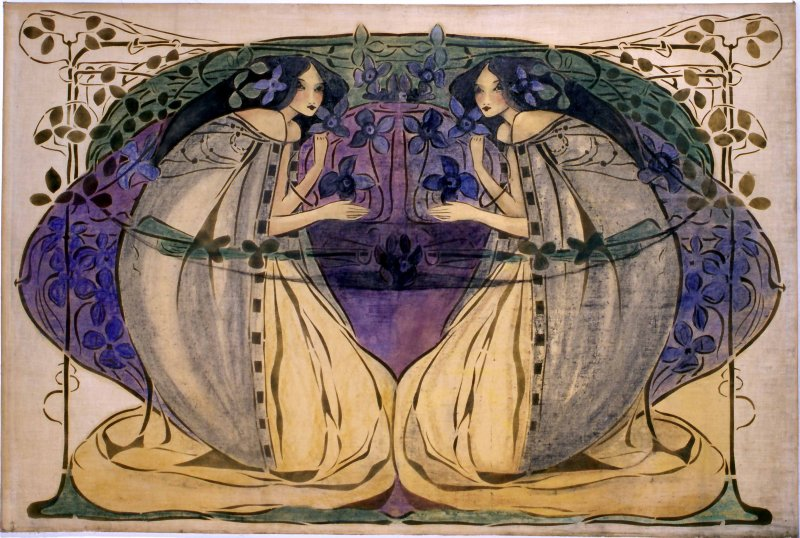 Spring watercolor on linen, 83.0 x 124.0 cm, Hunterian Museum and Art Gallery